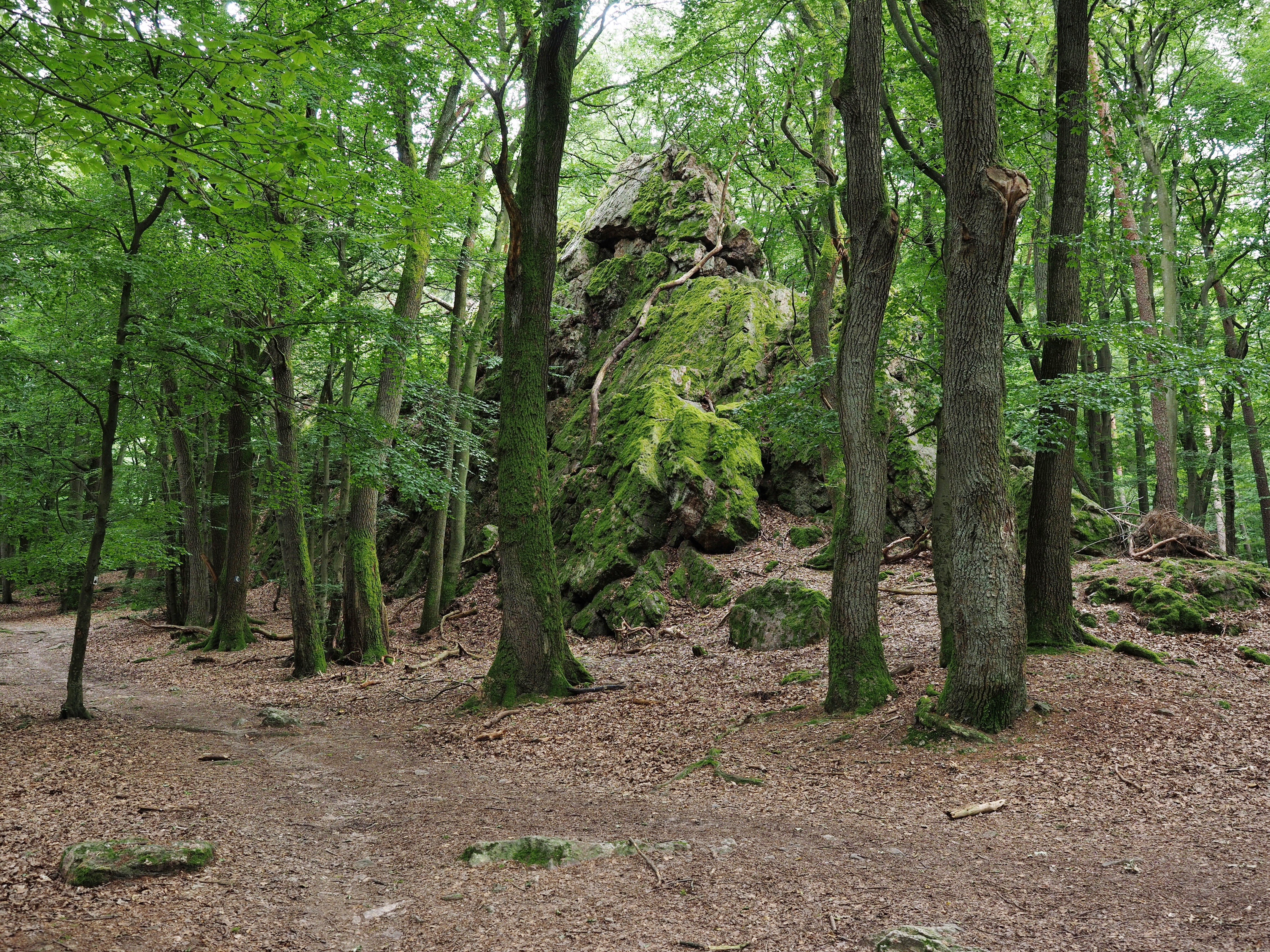 "Grauer Stein" rock, Wiesbaden, Germany